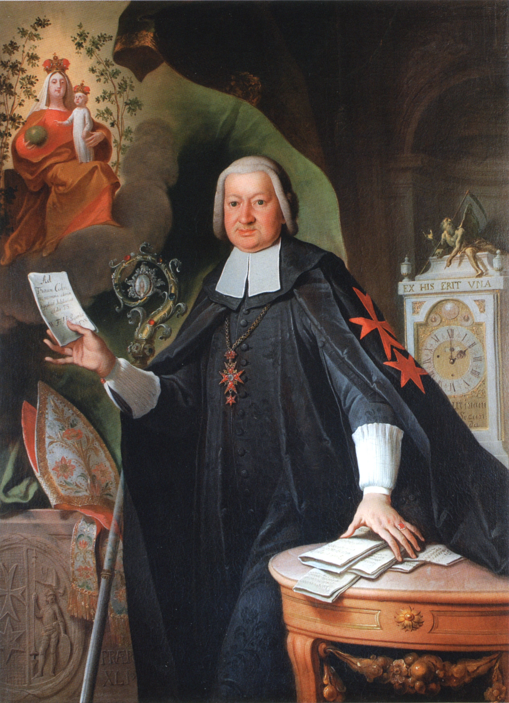 Portrait of Wenzel Friedrich Hlava